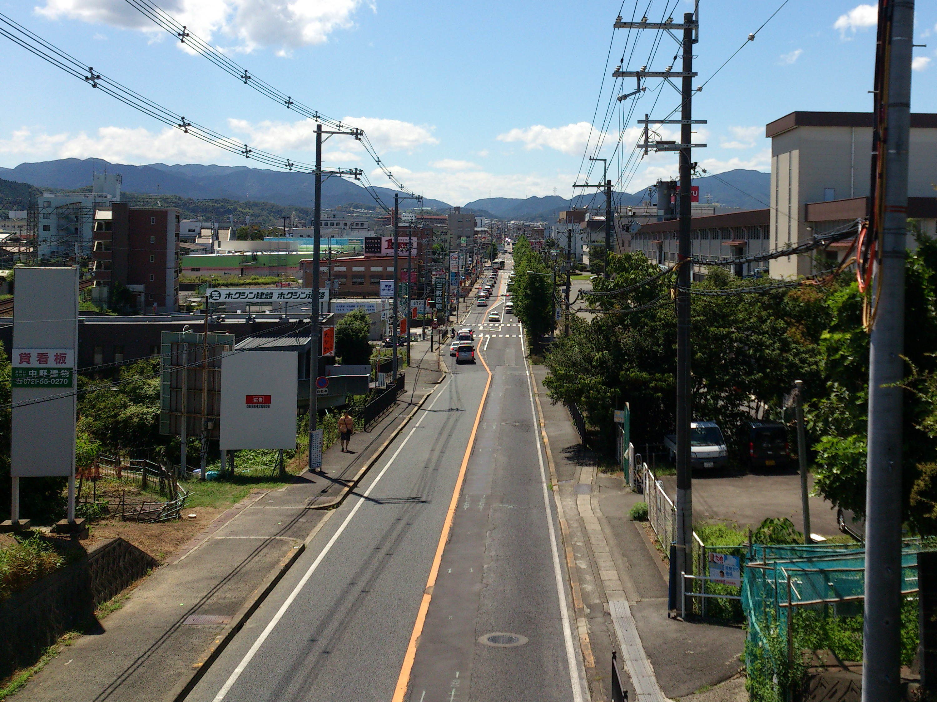 Japan National Route 310 (Kusunokichō-Higashi, Kawachinagano, Osaka, Japan)